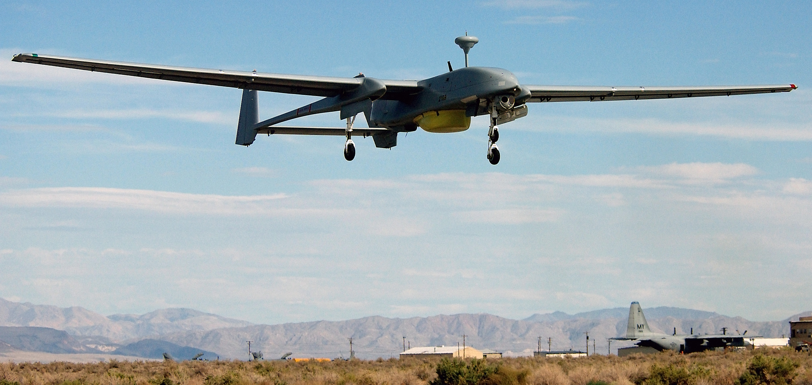 IAI Heron 1 UAV in flight. Location: NAVAL AIR STATION, FALLON, NEVADA (NV) UNITED STATES OF AMERICA (USA)